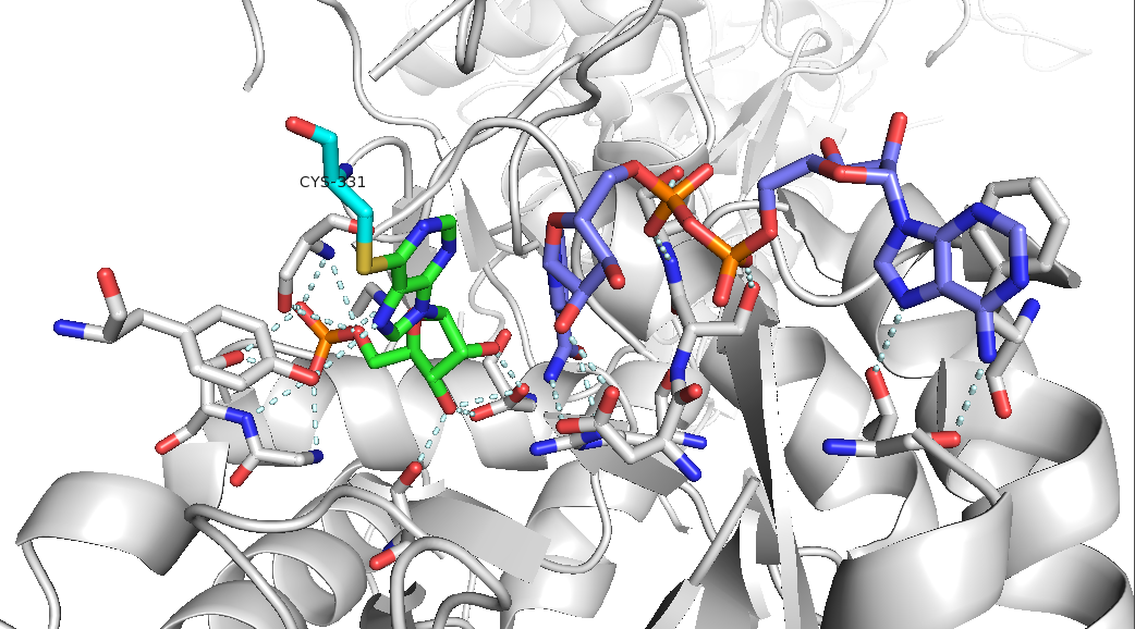 Highlight of residues involved in the active site of the IMP dehydrogenase registered with 1NFB pdb code.